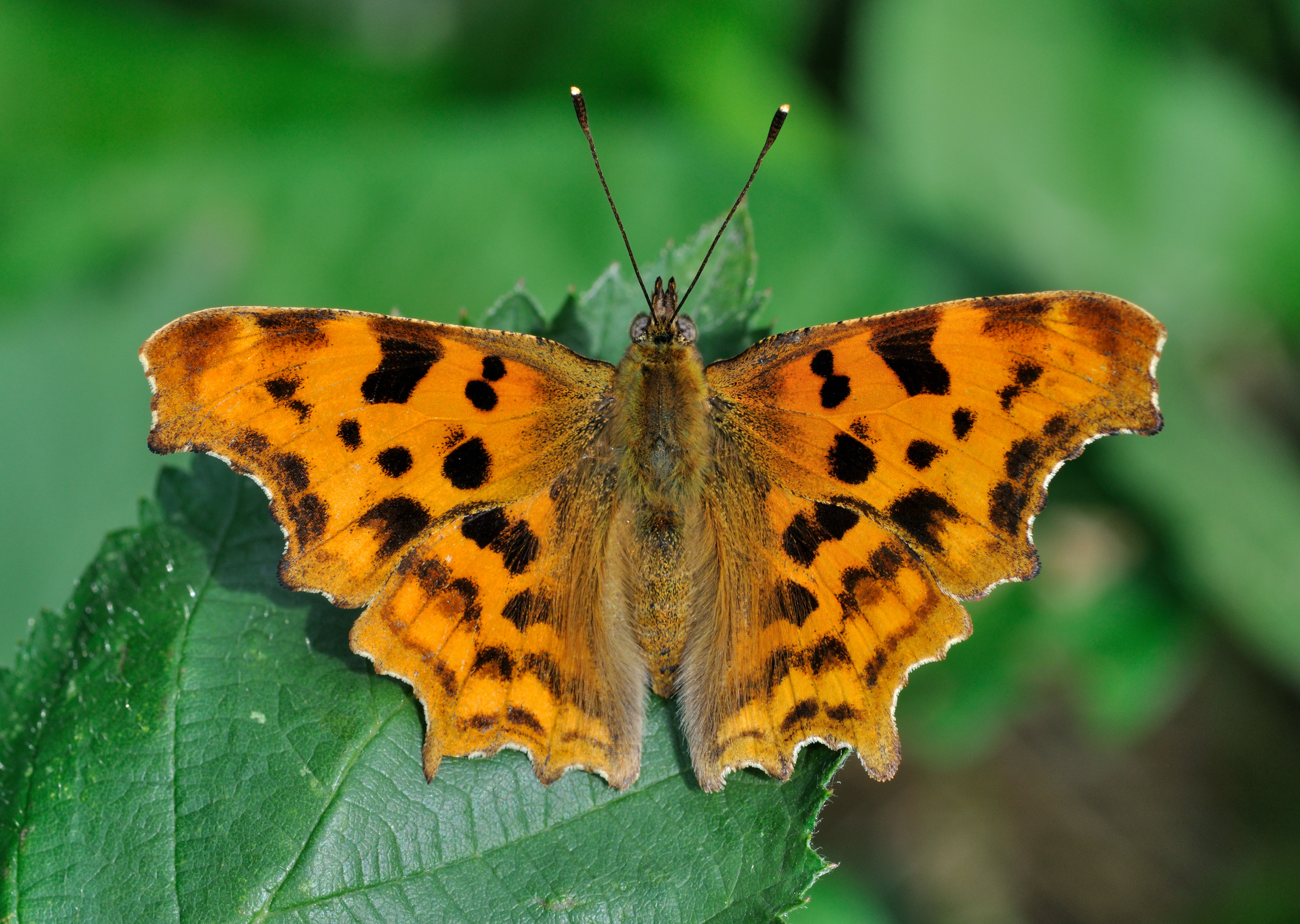 Comma (Polygonia c-album f. hutchinsoni) of the summer generation in Hamm, Germany.